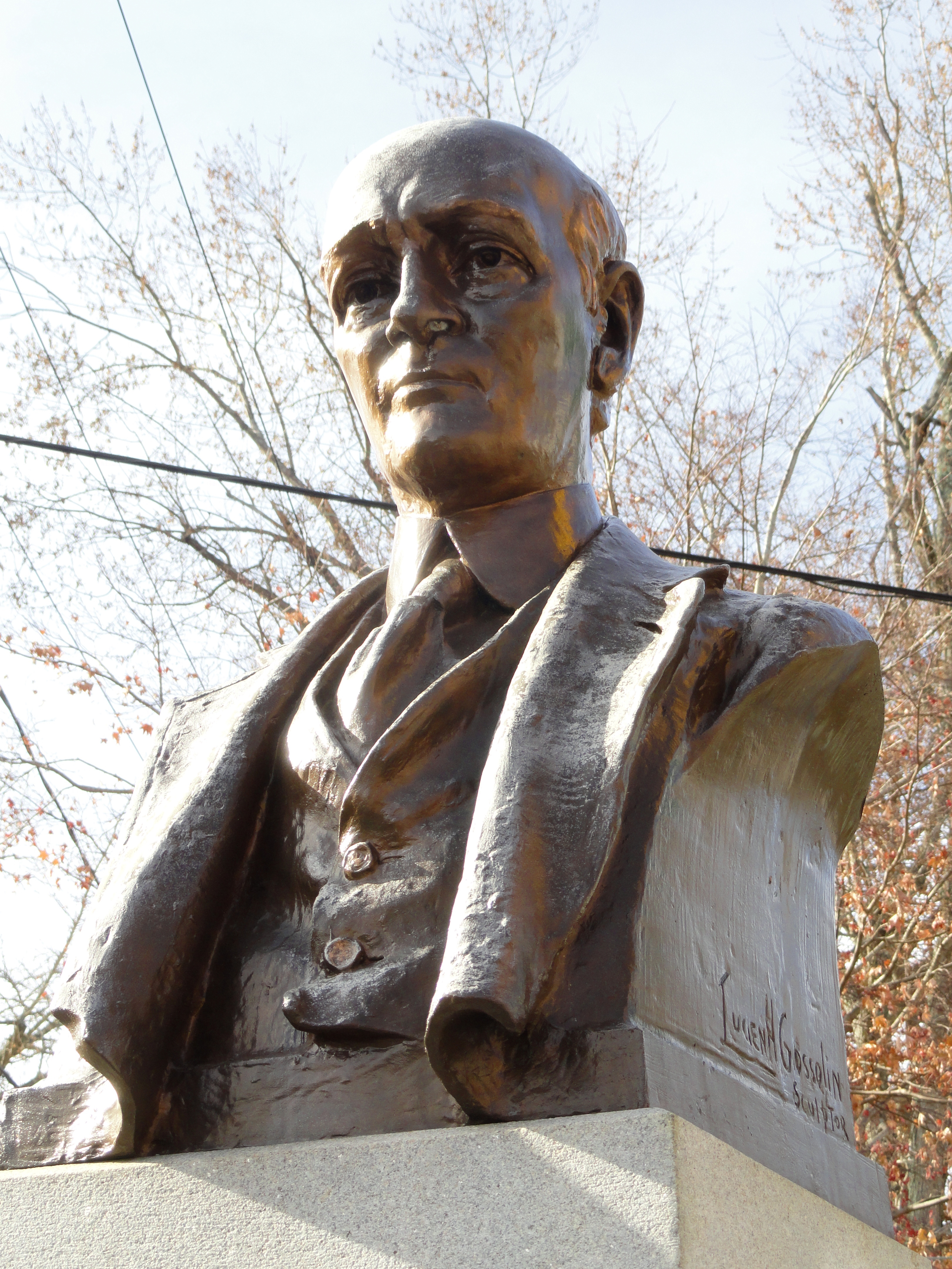 Félix Gatineau memorial, Southbridge, Massachusetts, USA. The statue was created by sculptor Lucien Gosselin (1883-1940), and is now in the public domain because the artist died more than 70 years ago.